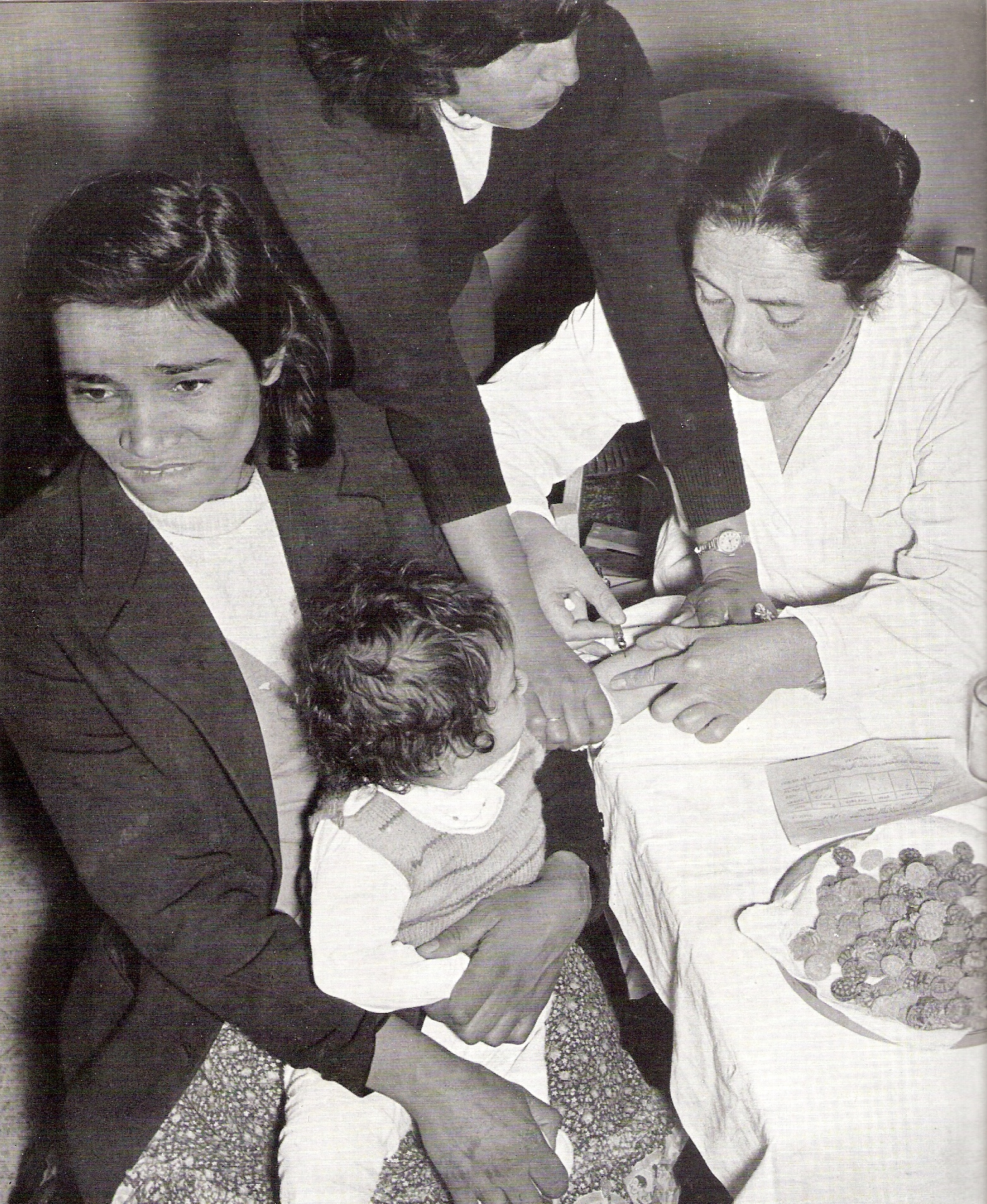 Vaccination against Poliomyelitis in Israel